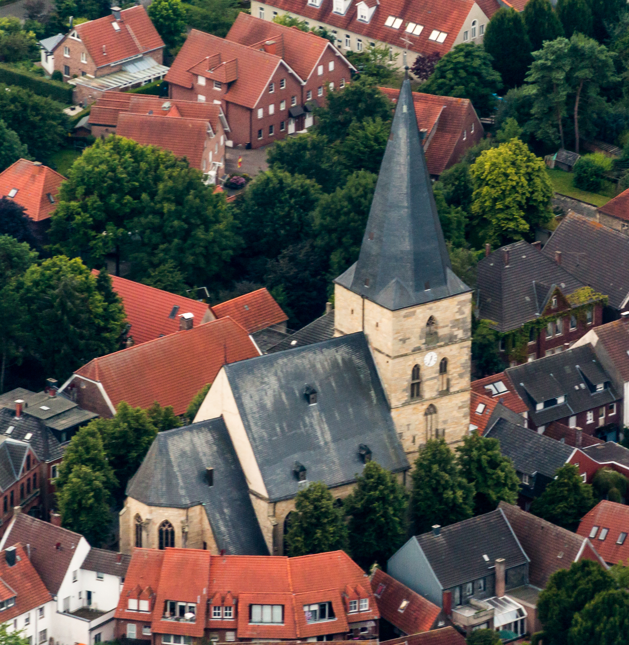 St. Bartholomew Church, Laer, North Rhine-Westphalia, Germany